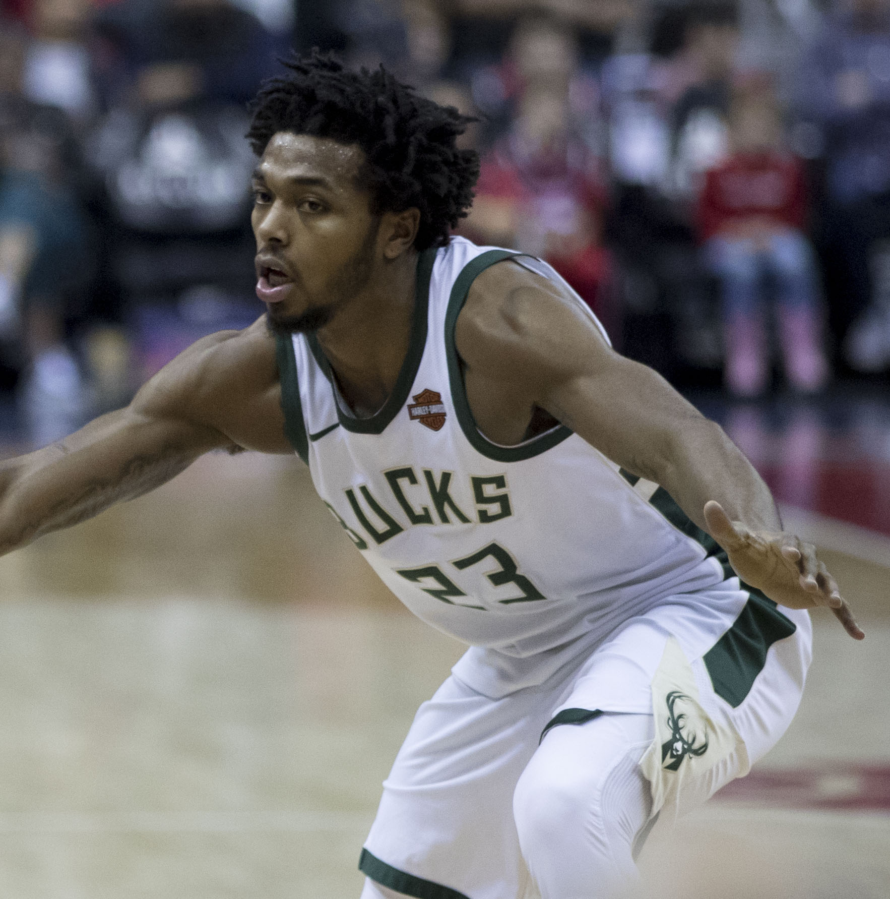 Bradley Beal of the Washington Wizards during a game against the Milwaukee Bucks on January 15, 2018 at Capital One Arena in Washington, DC.